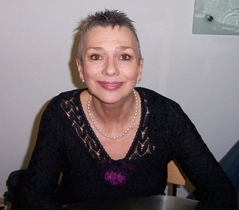 English actress Jacqueline Pearce, "Servalan" of the Blake's 7 television programme, at the Blake's 7 Series 2 DVD launch.